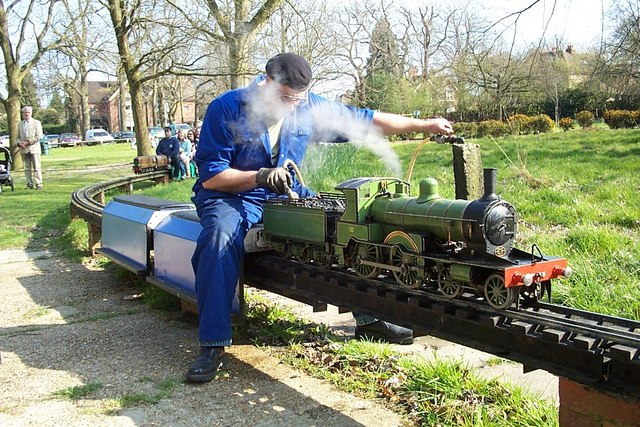 Goff's Park, Crawley one of the narrow gauge trains.